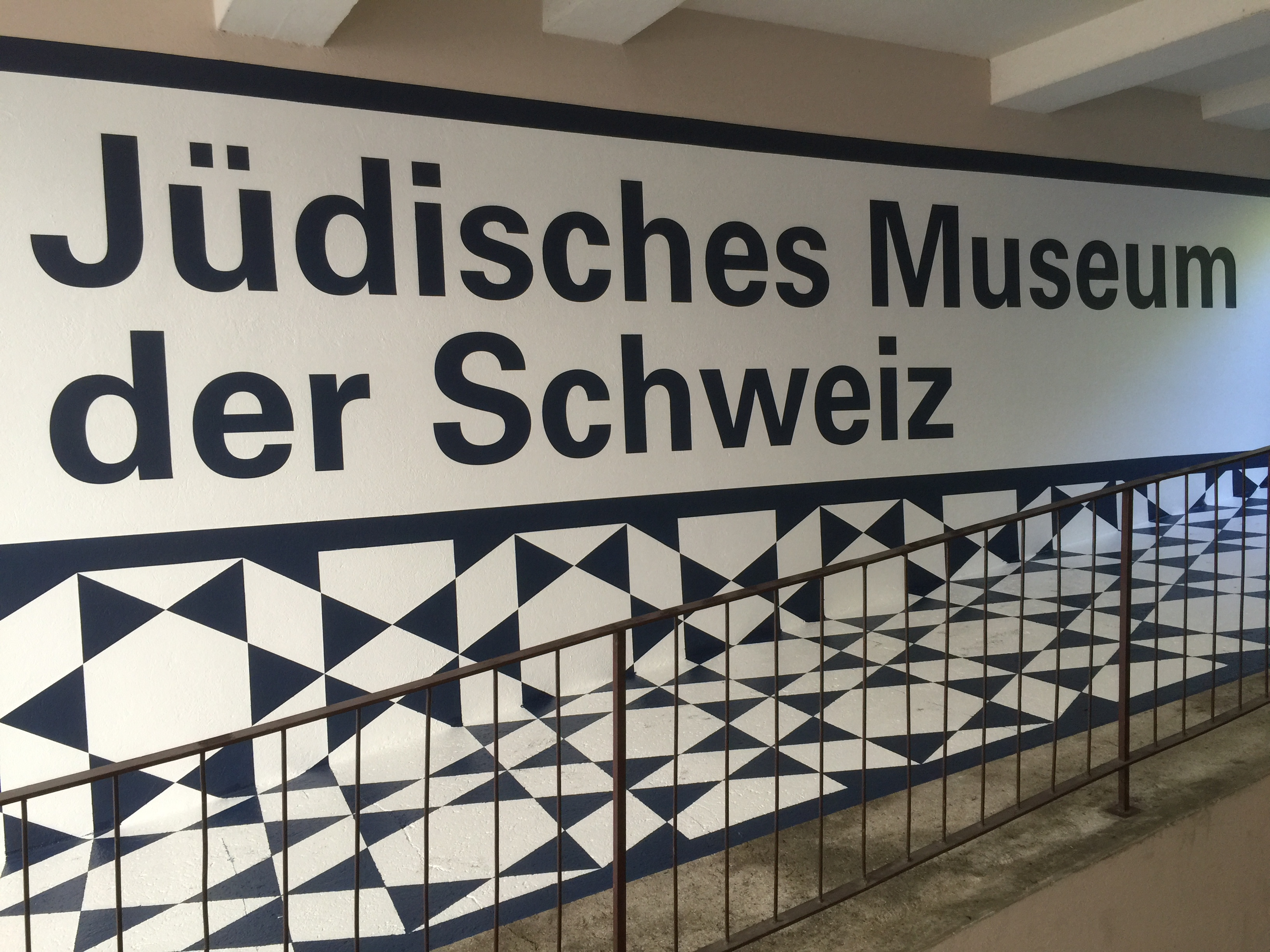 Jewish Museum of Switzerland, Basel